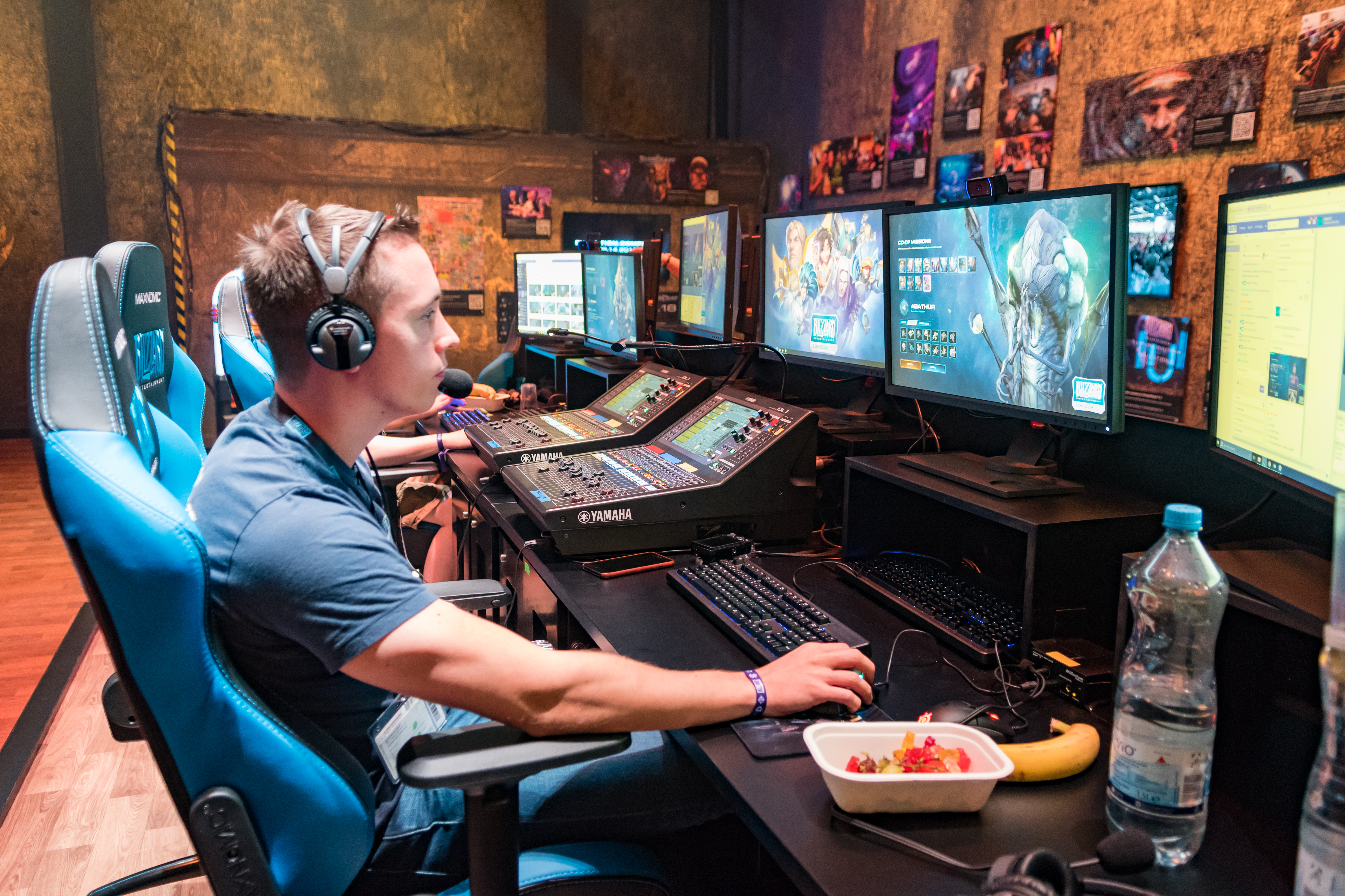 Starcraft Profi Gamescom 2017